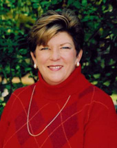 Delaine Eastin, politician